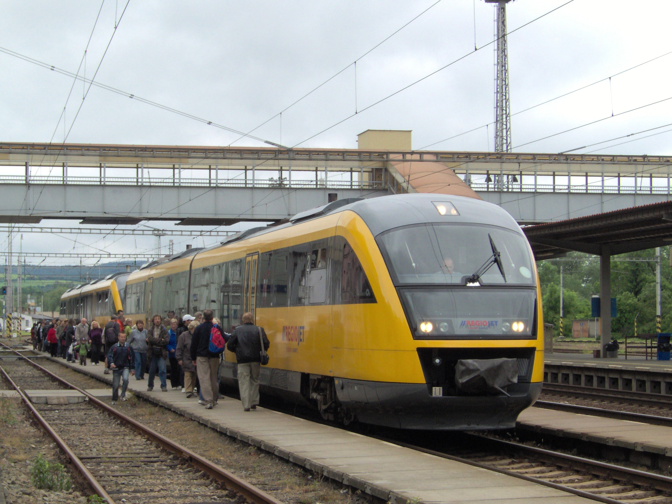 Diesel multiple units Siemens Desiro of RegioJet, Skalice nad Svitavou, Czech Republic